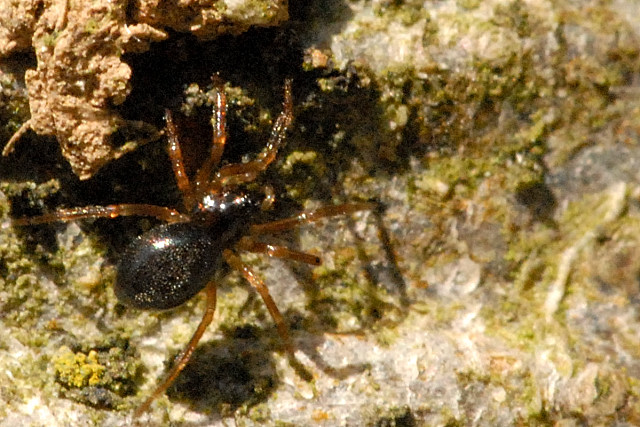 Erigone atra from Commanster, Belgian High Ardennes .